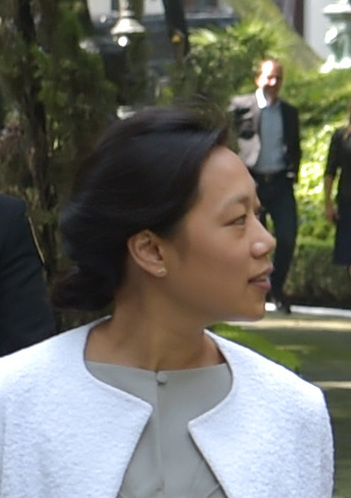 Priscilla Chan, in 2014.